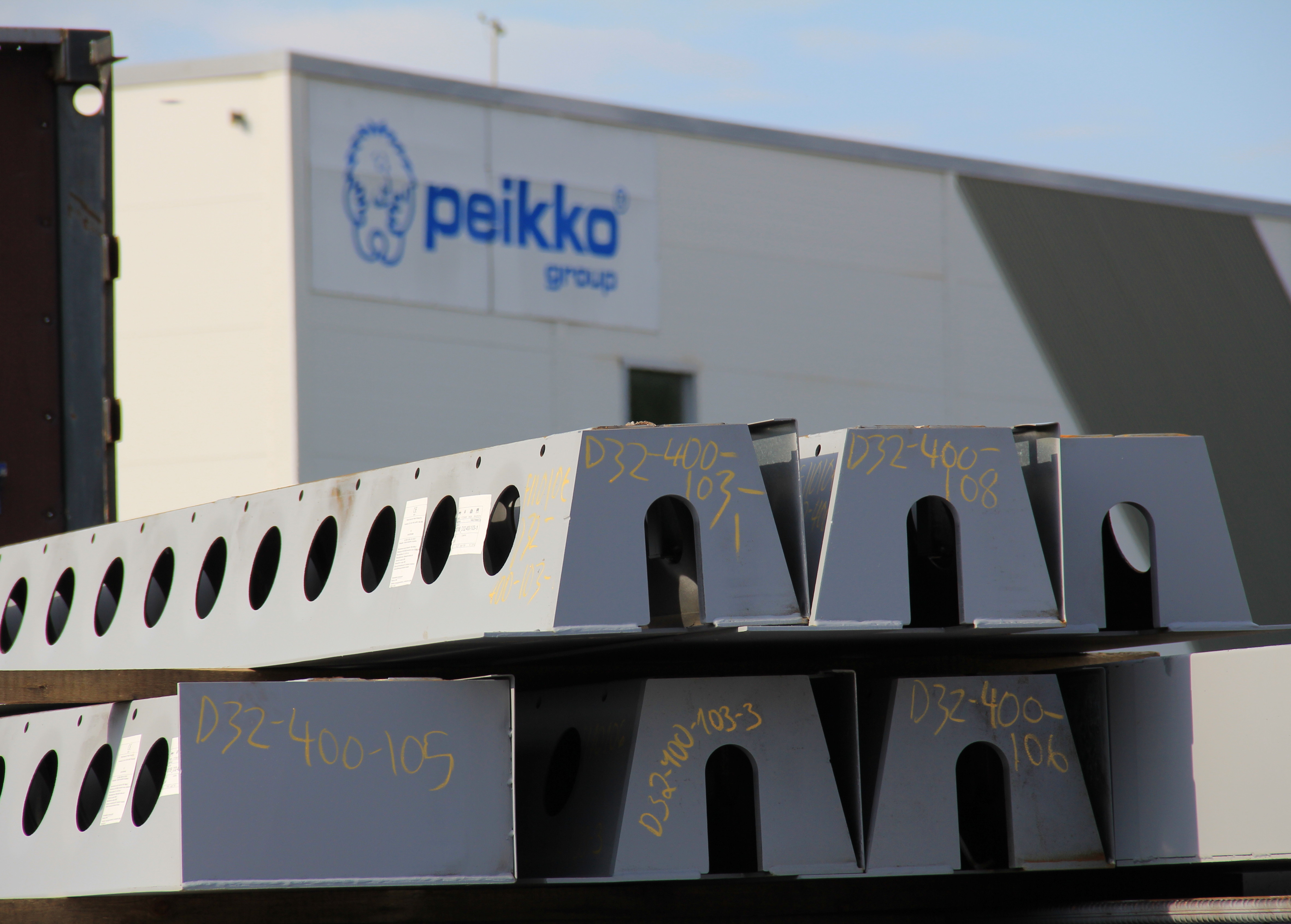 Deltabeams, pre-fabricated steel composite beams, Peikko Factory, Lahti, Finland.